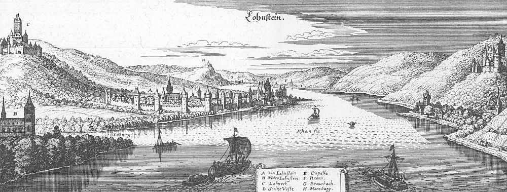 This is a scan of the historical document: Title: Lahnstein - Topographia Hassiae language: german